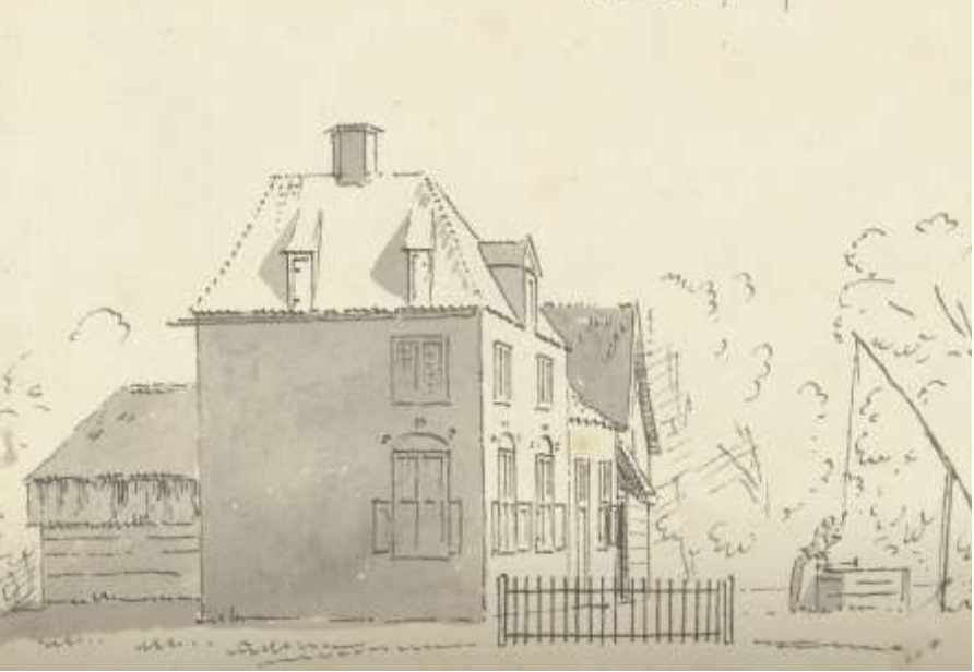 Tarthorst. Wageningen, Netherlands